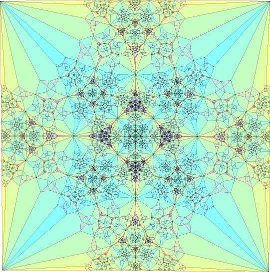 A tile type of a finite subdivision rule associated to the right-angled cuboctahedron after repeated subdivision.